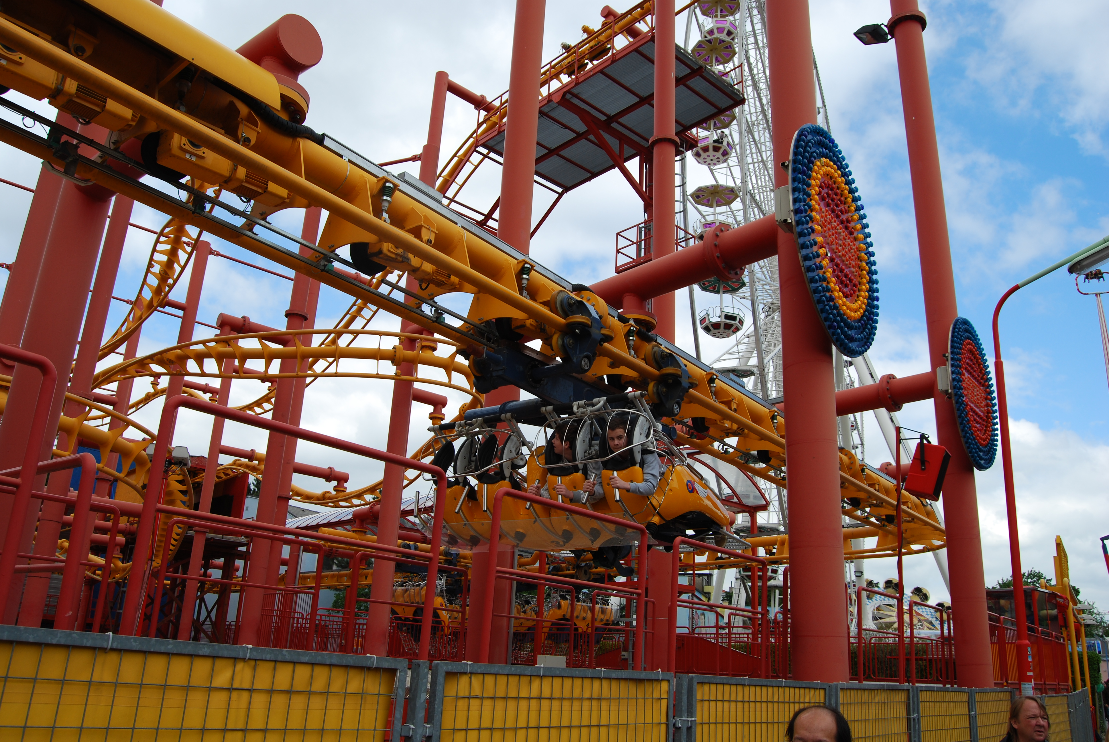 Attraction ride in Prater amusement park